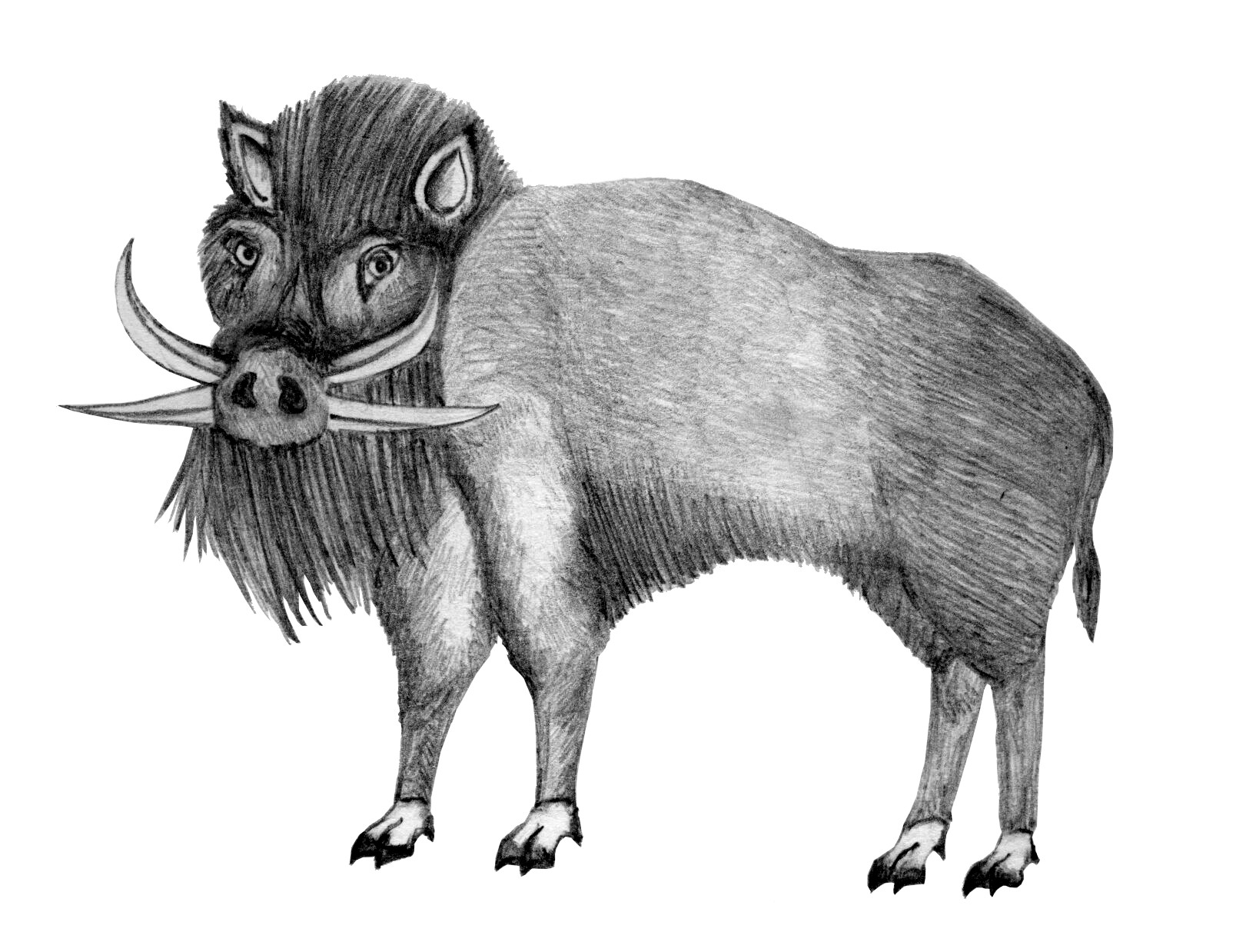 Artistic rendition of the Beast of Dean, a cryptid of English countryside